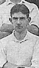 Alexander Glen while with Tottenham Hotspur in 1905/06. Taken from 1905 sports publication.